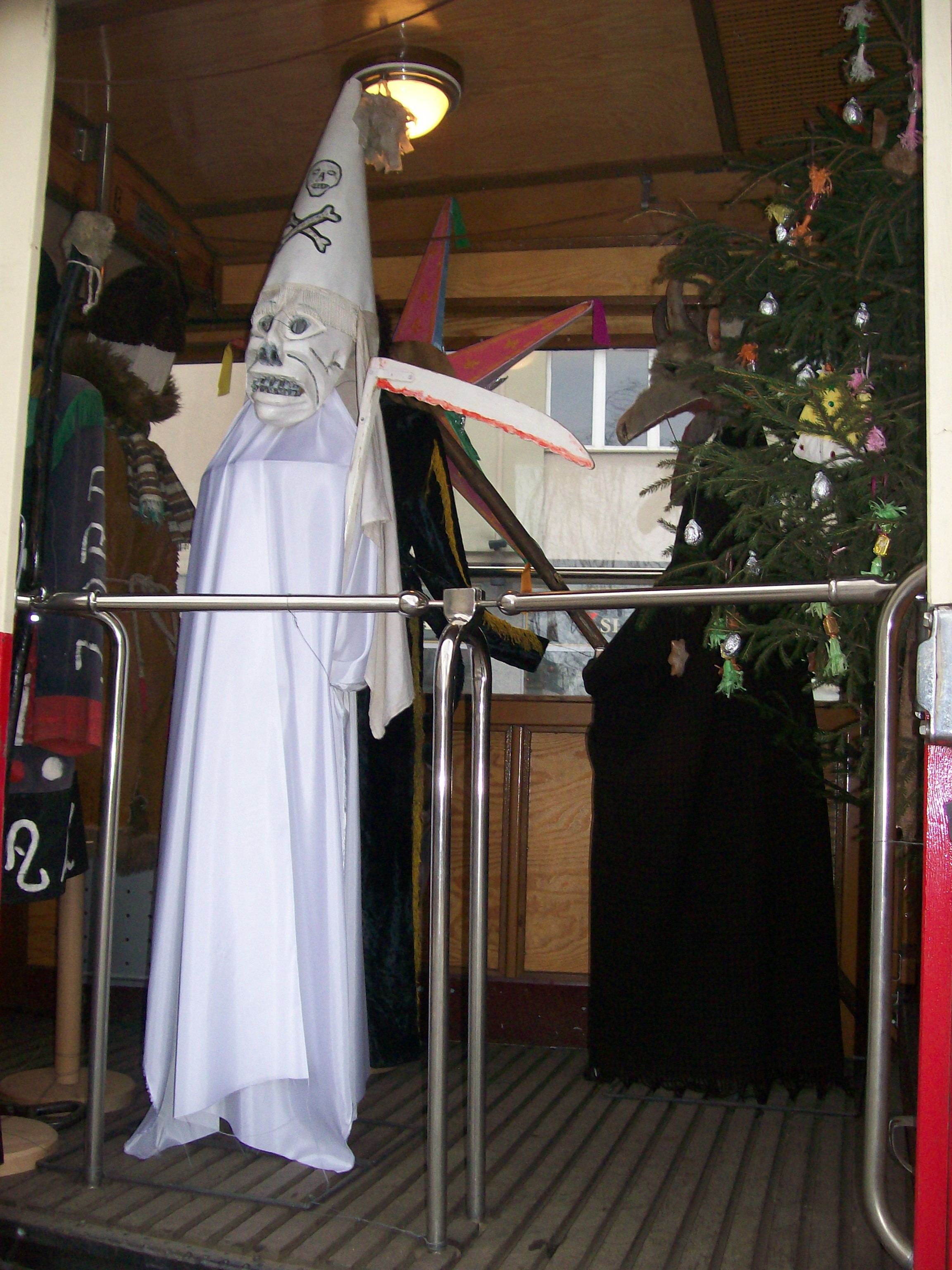 Katowice: “Christmas Horse” of the Silesian Museum.